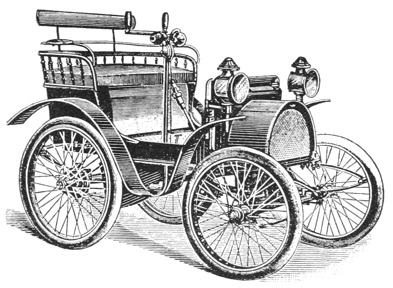 General view of Renault voiturette